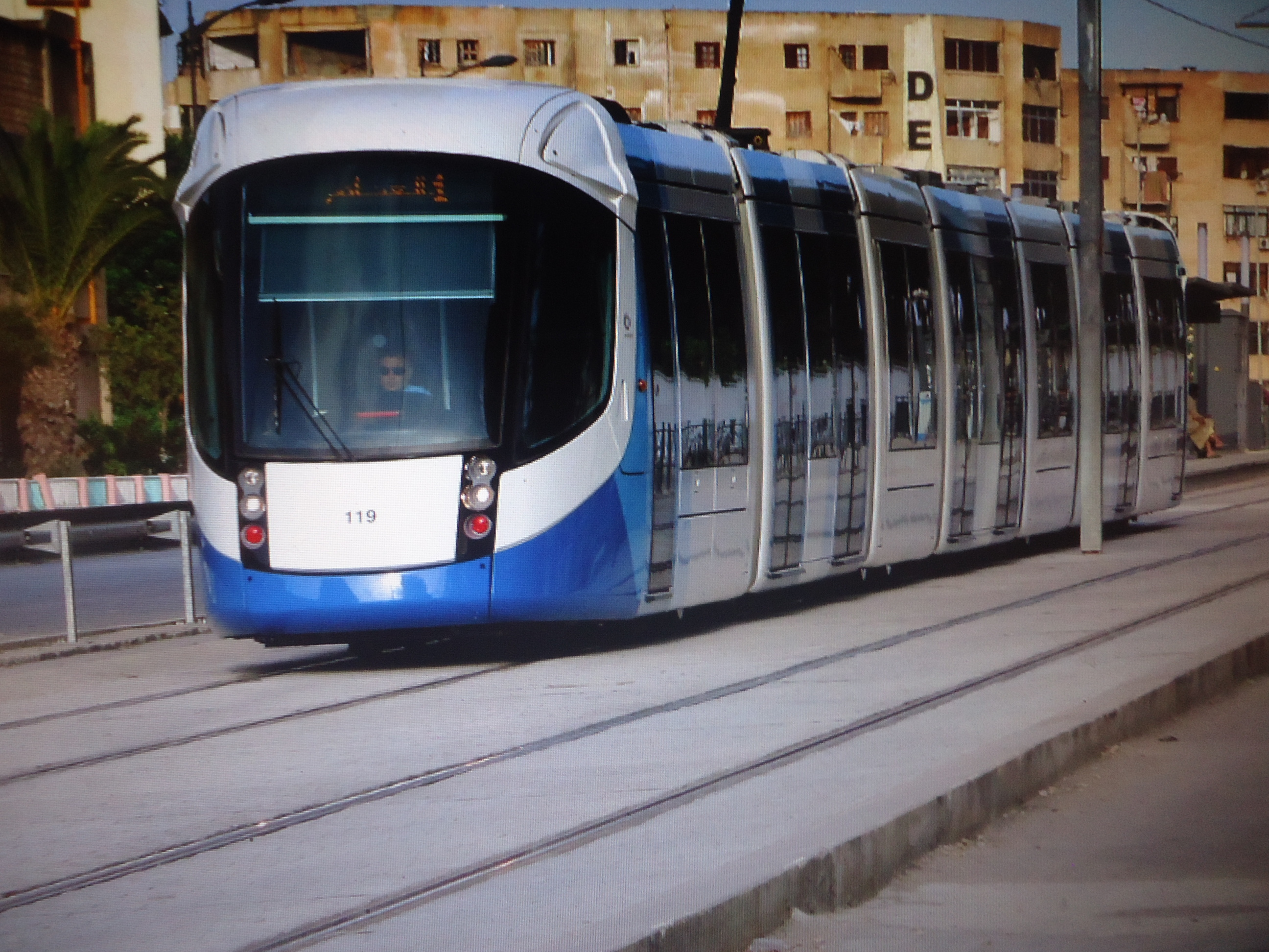 Algiers tramway. Photographed inside LCD display picture.